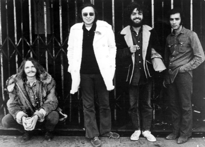 Publicity photo of the music group Crazy Horse.